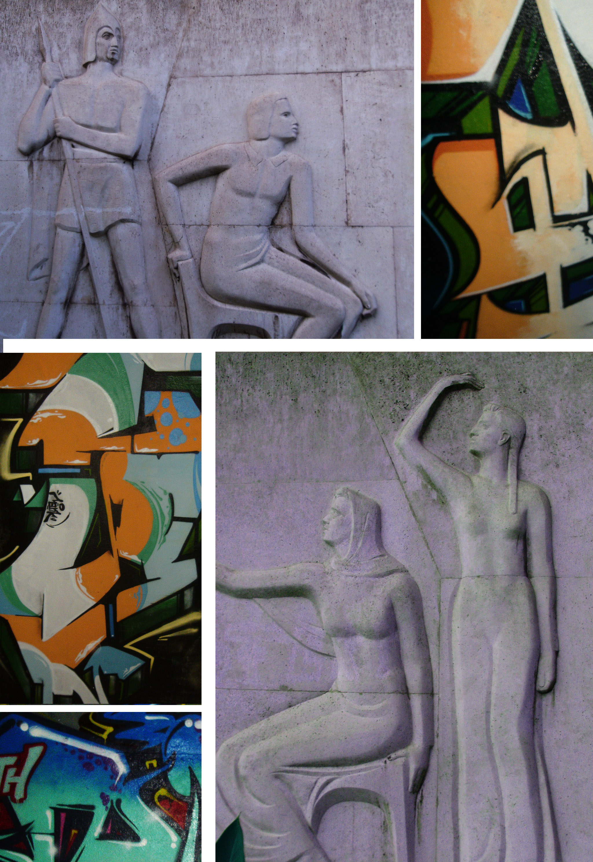 Dunaujvaros, Hungary